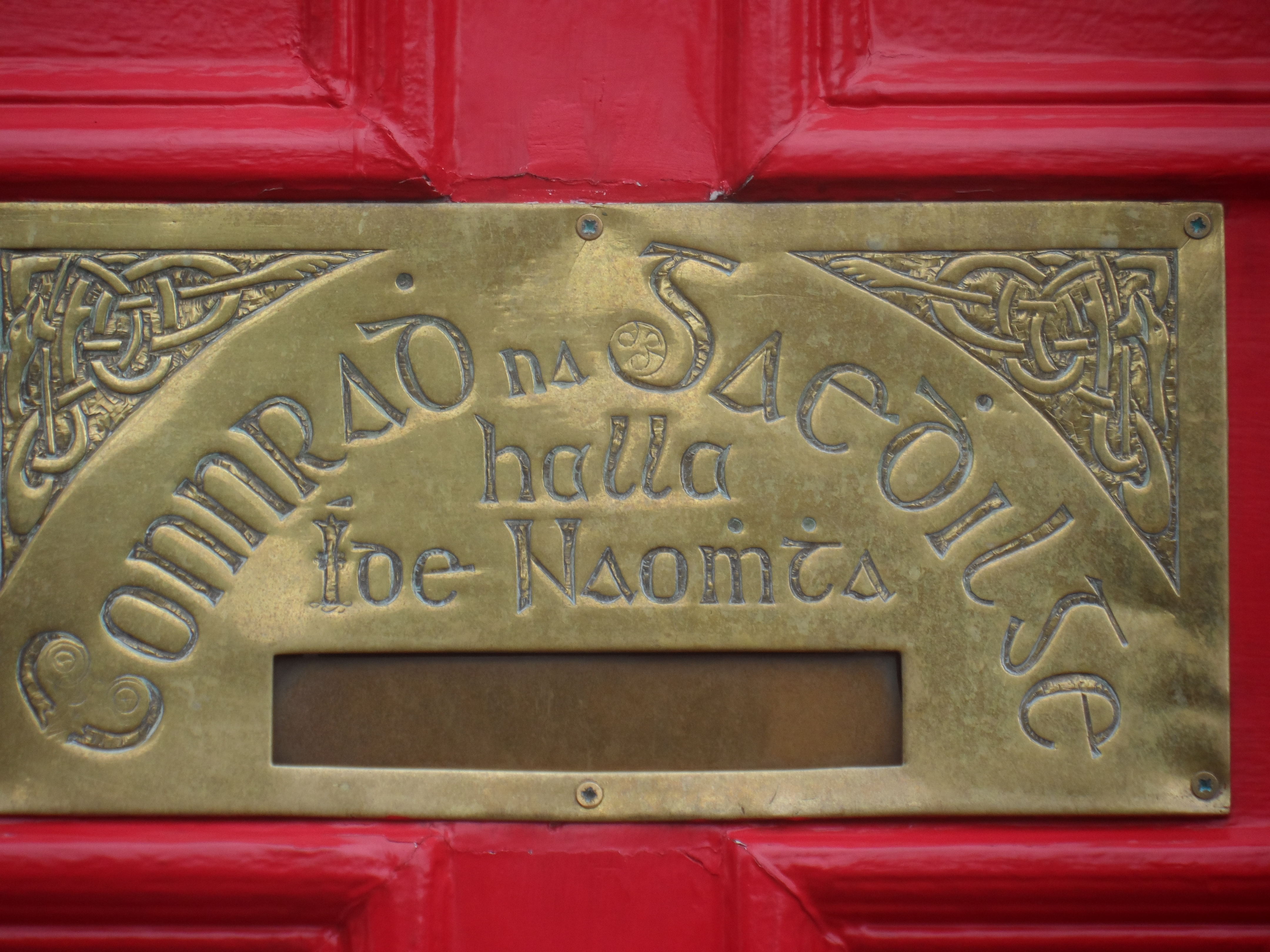 Conradh Limk 2